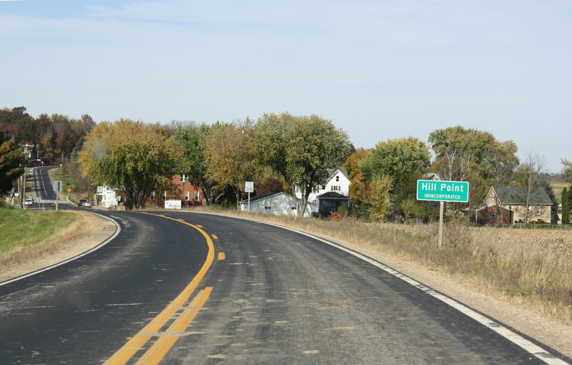 Looking east at the sign for Hill Point, Wisconsin along Wisconsin Highway 154.